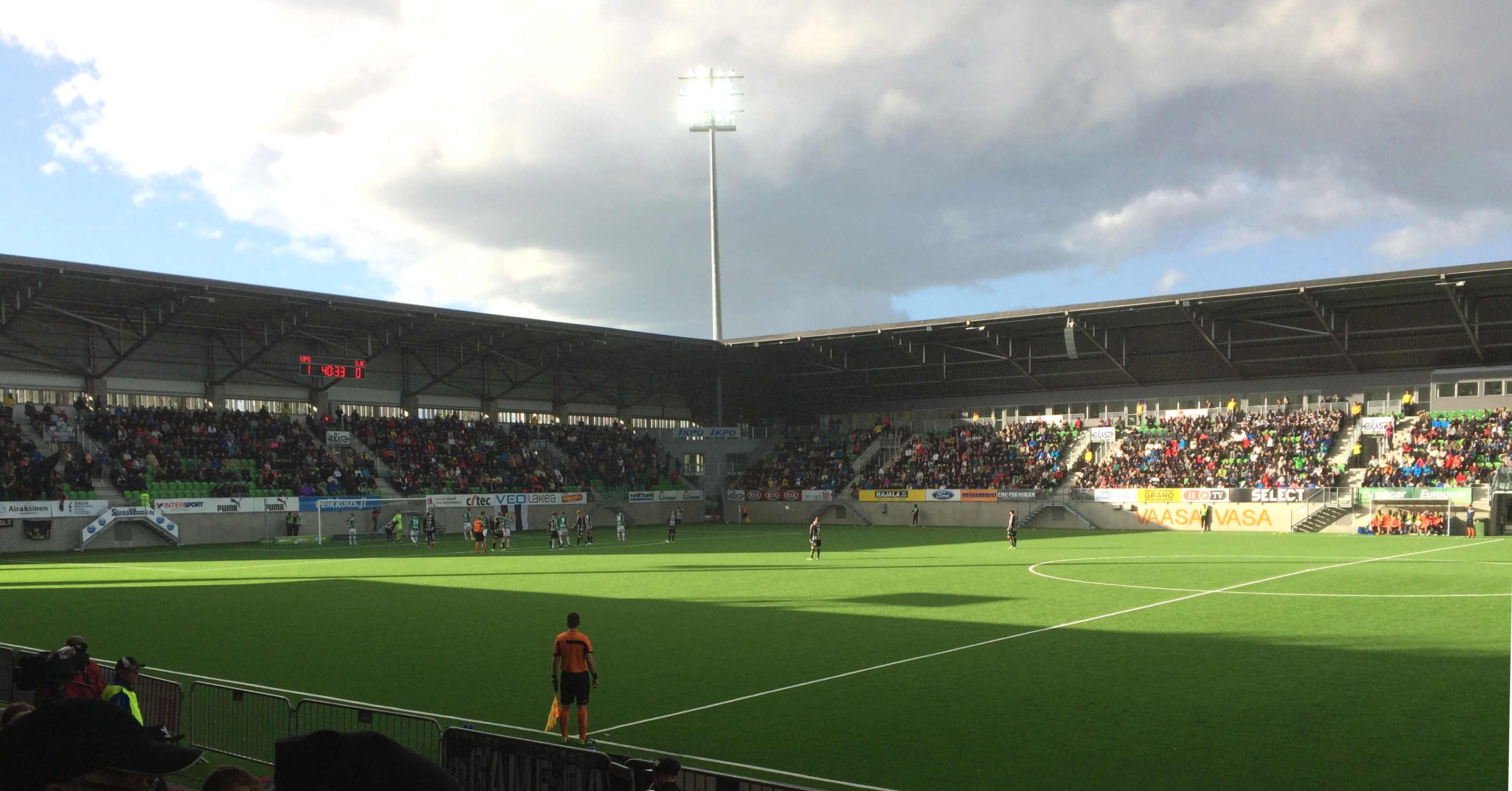 Elisa Stadion Vaasa